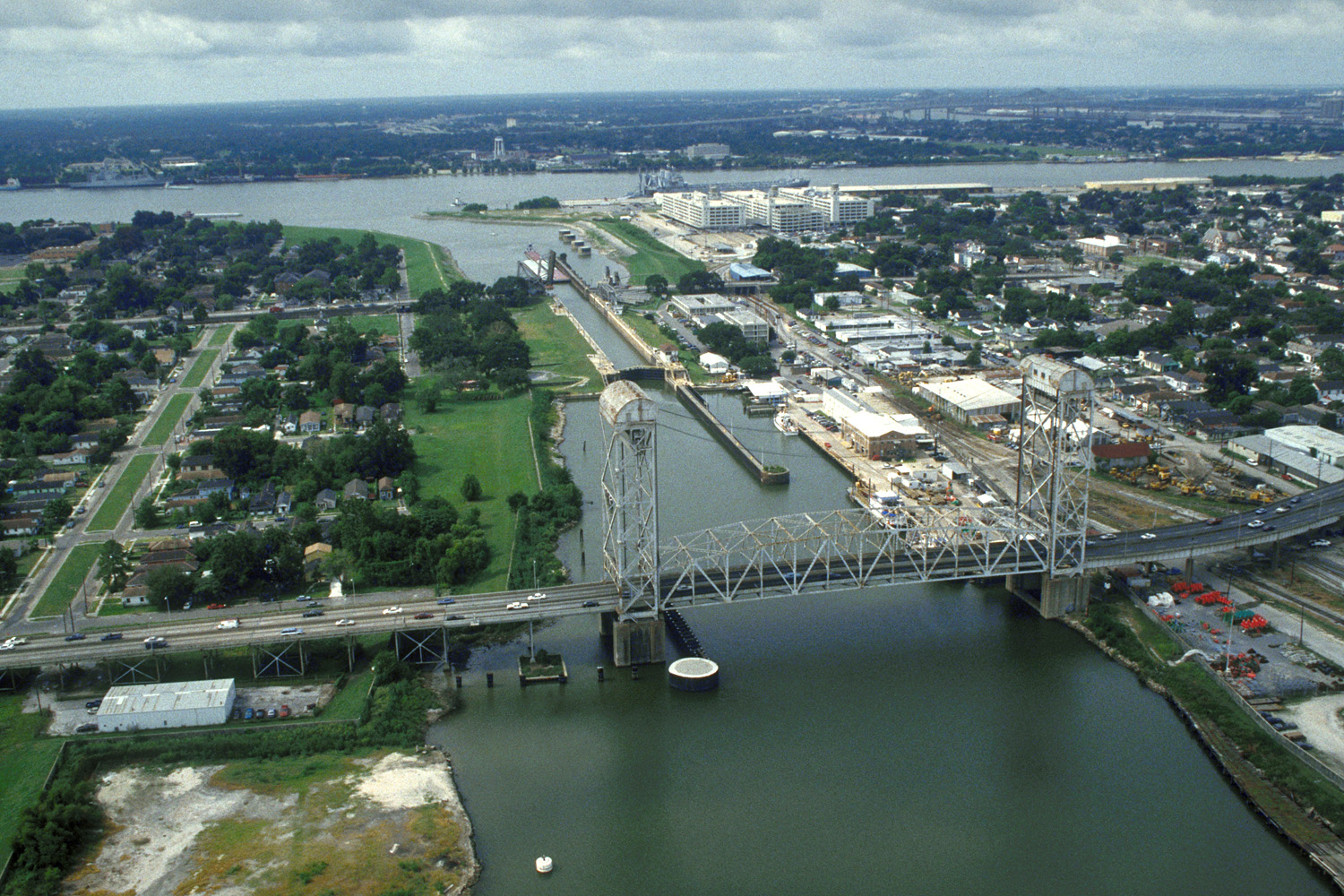 The Inner Harbor Navigation Canal (IHNC), commonly known as the Industrial Canal, in New Orleans, Louisiana, USA. The canal connects the Mississippi River to Lake Pontchartrain. The view is to the south-southwest looking over New Orleans. The Claiborne Avenue Bridge crosses the canal in the foreground. The Bywater neighborhood of New Orleans is to the right of the Canal, the Lower 9th Ward to the left.